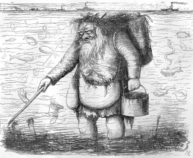 Dirty father Thames : Father Thames shown as a filthy looking vagrant, and the river as a repository of filth and industrial waste. A poem bemoans the state of this waterway.